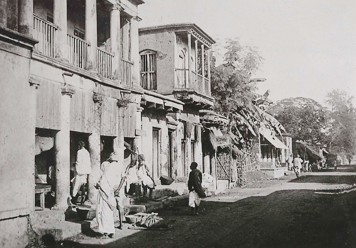 A street of the "ville noire" (black town), where lived the poorer natives in the French enclave of Chandernagore, north of Calcutta. Postcard from the 1910s to the 1920s.